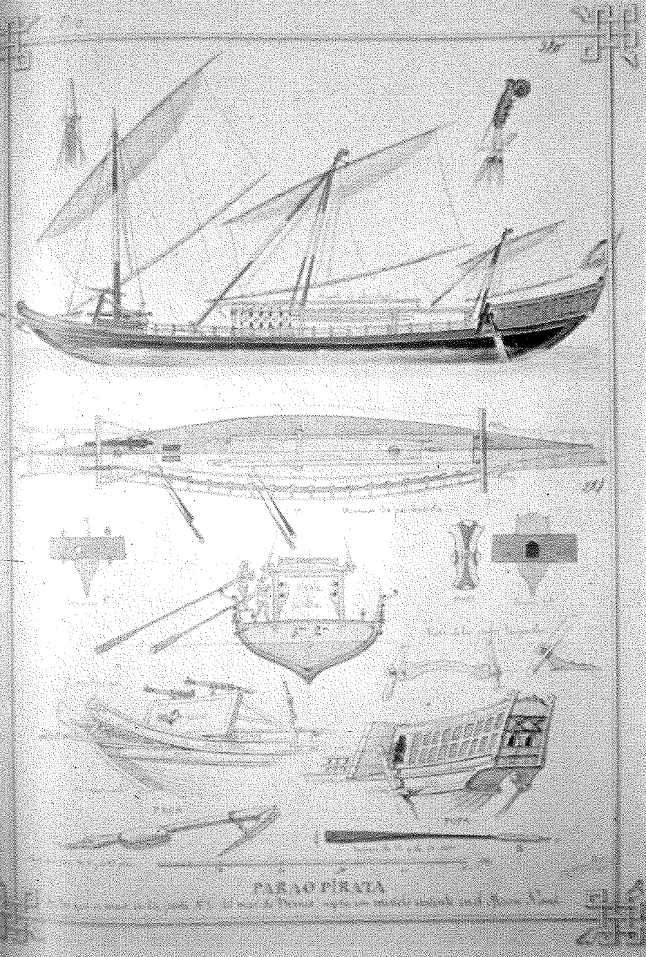 Lanong sketches by Rafael Monleón (1890)